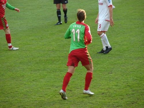 Dmitry Sychev. 2007 Russian cup semifinal (FC Lokomotiv Moscow v.s. FC Spartak Moscow)